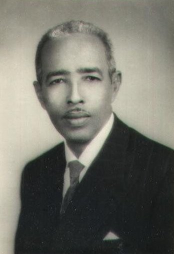 Aden Abdulle Osman Daar, the first President of Somalia's civilian government.